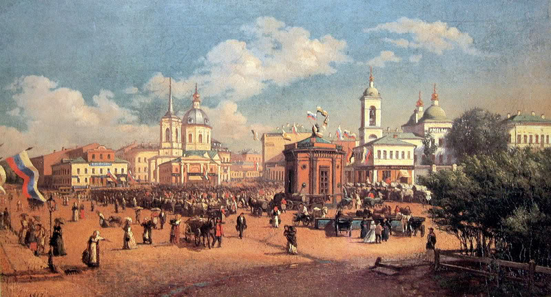 Funfair (market) on the Arbat Square, Moscow, painting of A.P. Rozanov, 1877.